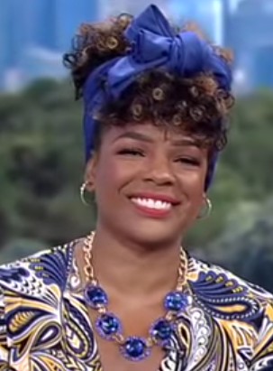 American singer Syleena Johnson in August 2018